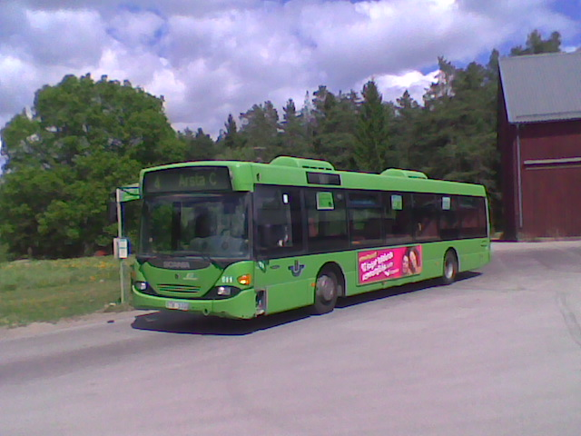 A 2002 Scania CN94UB OmniCity city bus (#511) in Uppsala, Sweden. Built 2002, GUB Uppsala operator.